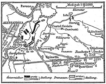 Battle of Marengo (1800)